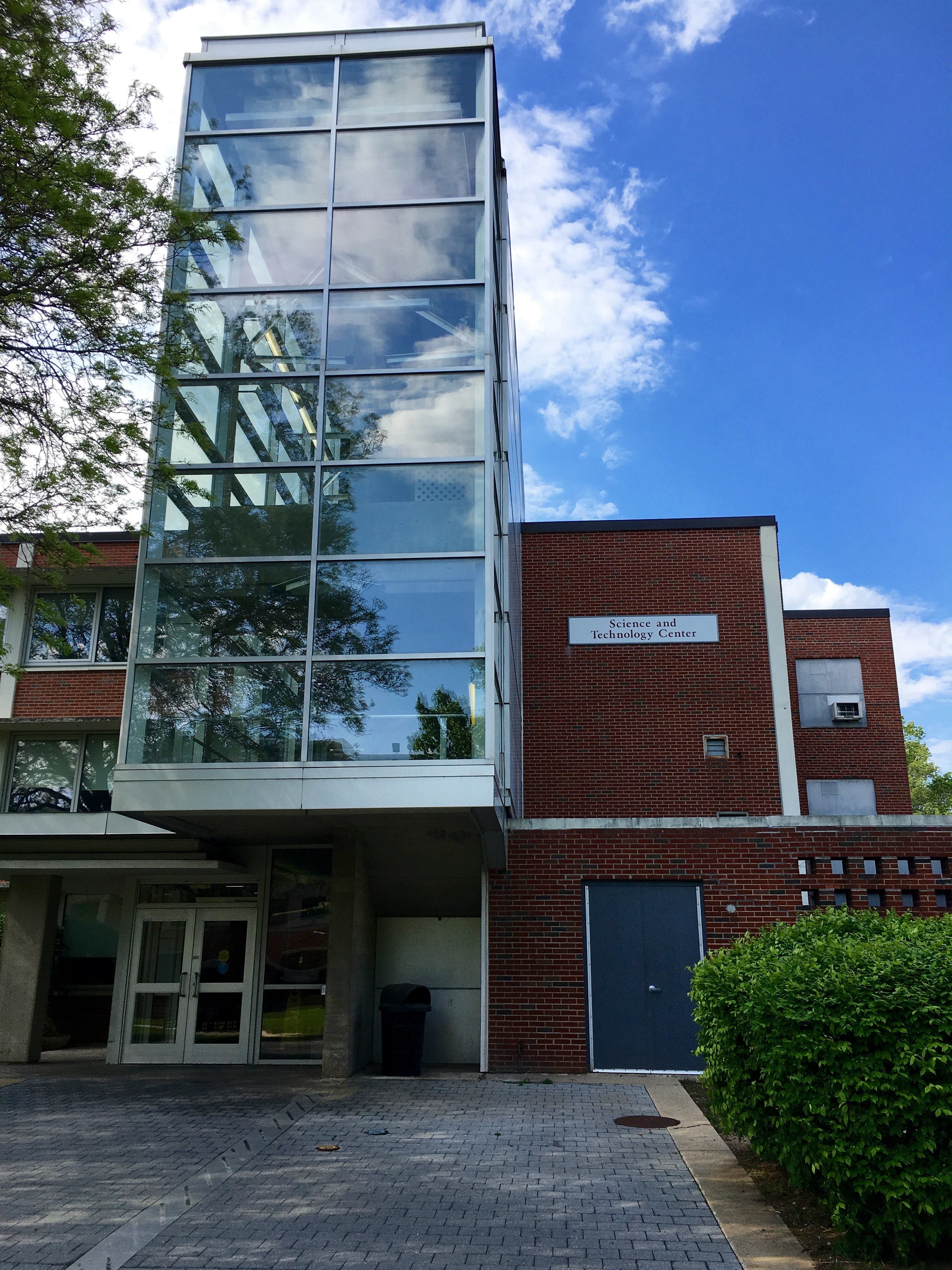 Science and Technology Center at Rider University